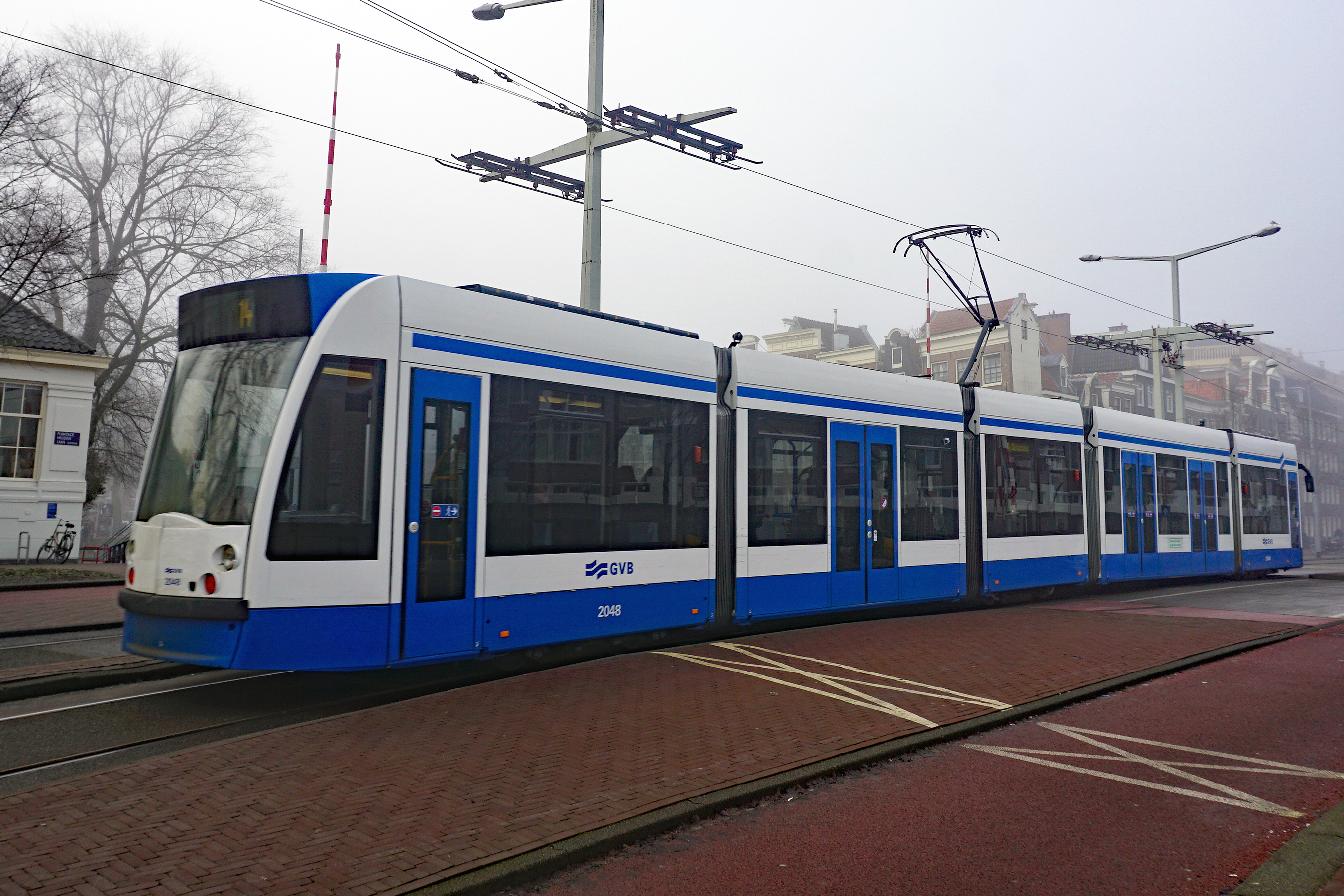 GVB tram Amsterdam